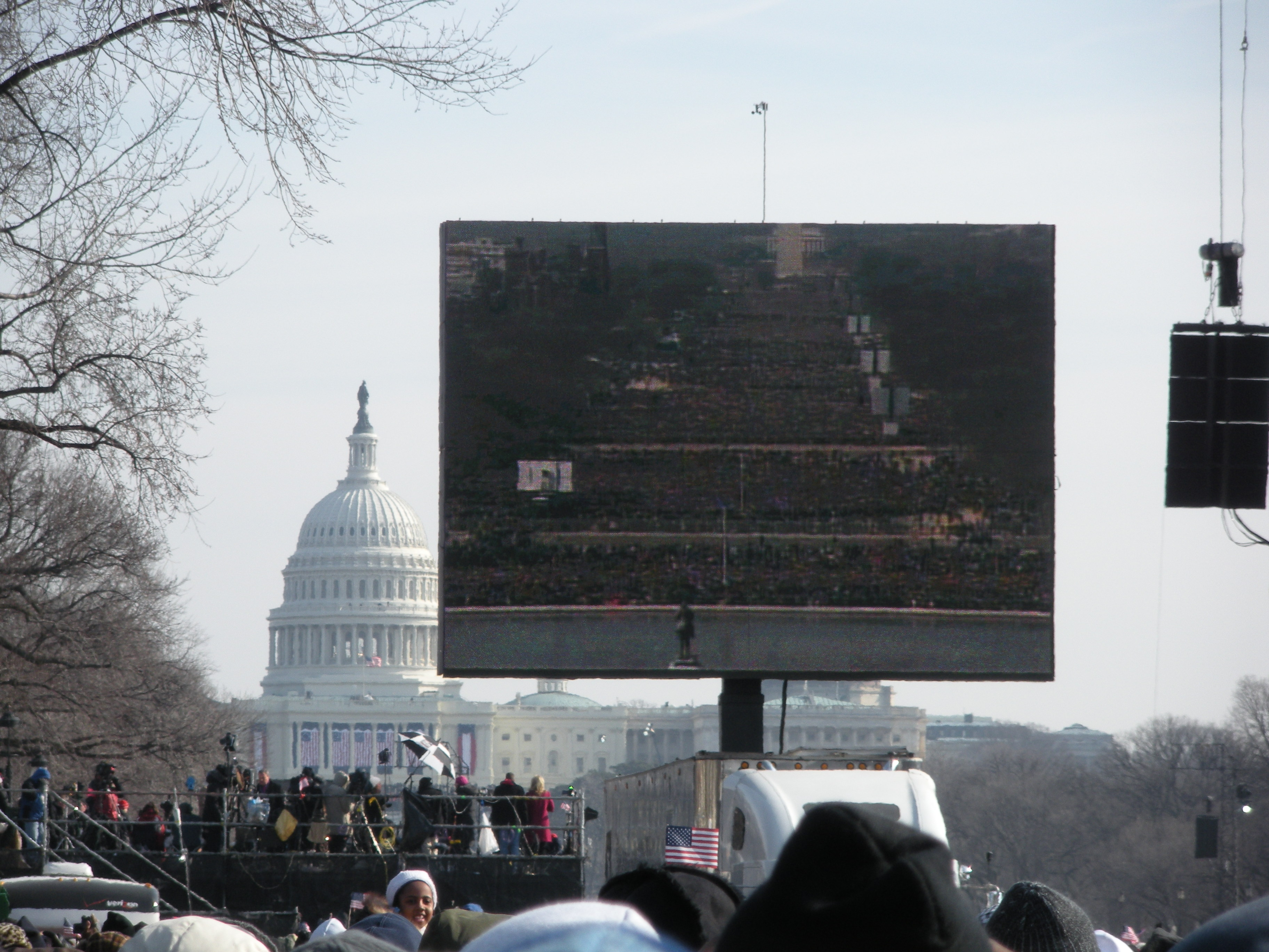 A picture taken from the National Mall during the 2009 Presidential Inauguration. Picture is of a JumboTron machine. The image displayed is that of an overhead shot of the large crowd on the Mall that day. The United States Capitol building is in the background.